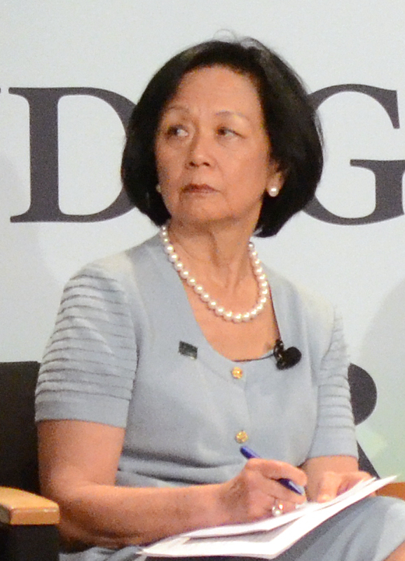 Phyllis Wise, Chancellor, University of Illinois listens to Agriculture Secretary Tom Vilsack speaking at the Association of Land-Grant Universities (APLU) 150th Years for the Morrill Act: Advancing the Legacy at the Ronald Reagan Building & International Trade Center in Washington D.C., on Tuesday, June 26, 2012. Secretary Vilsack was also on the Agriculture and Natural Resources discussion as a panel member. USDA Photo by Tom Witham.